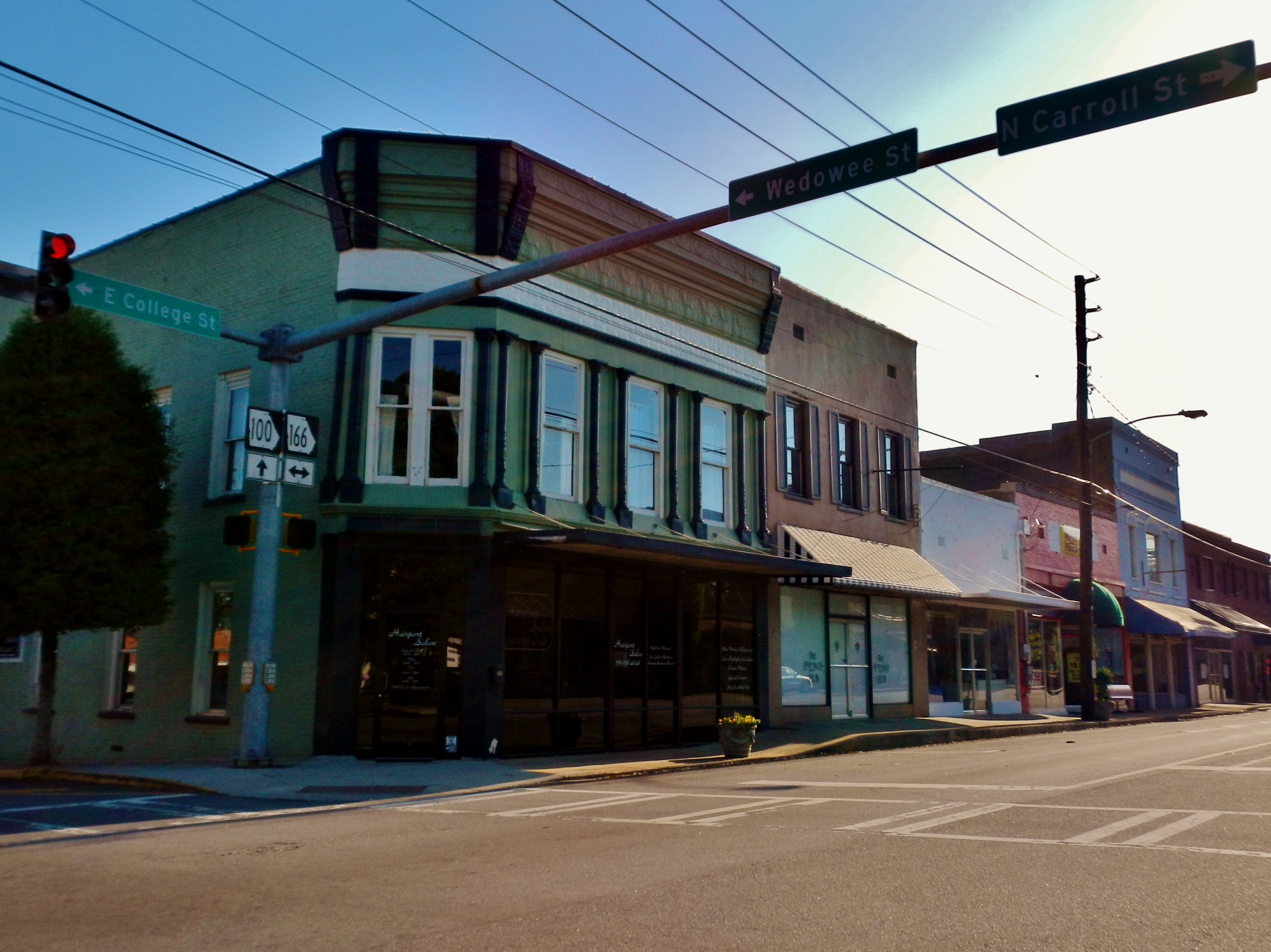 This is a photo of Bowdon, GA.